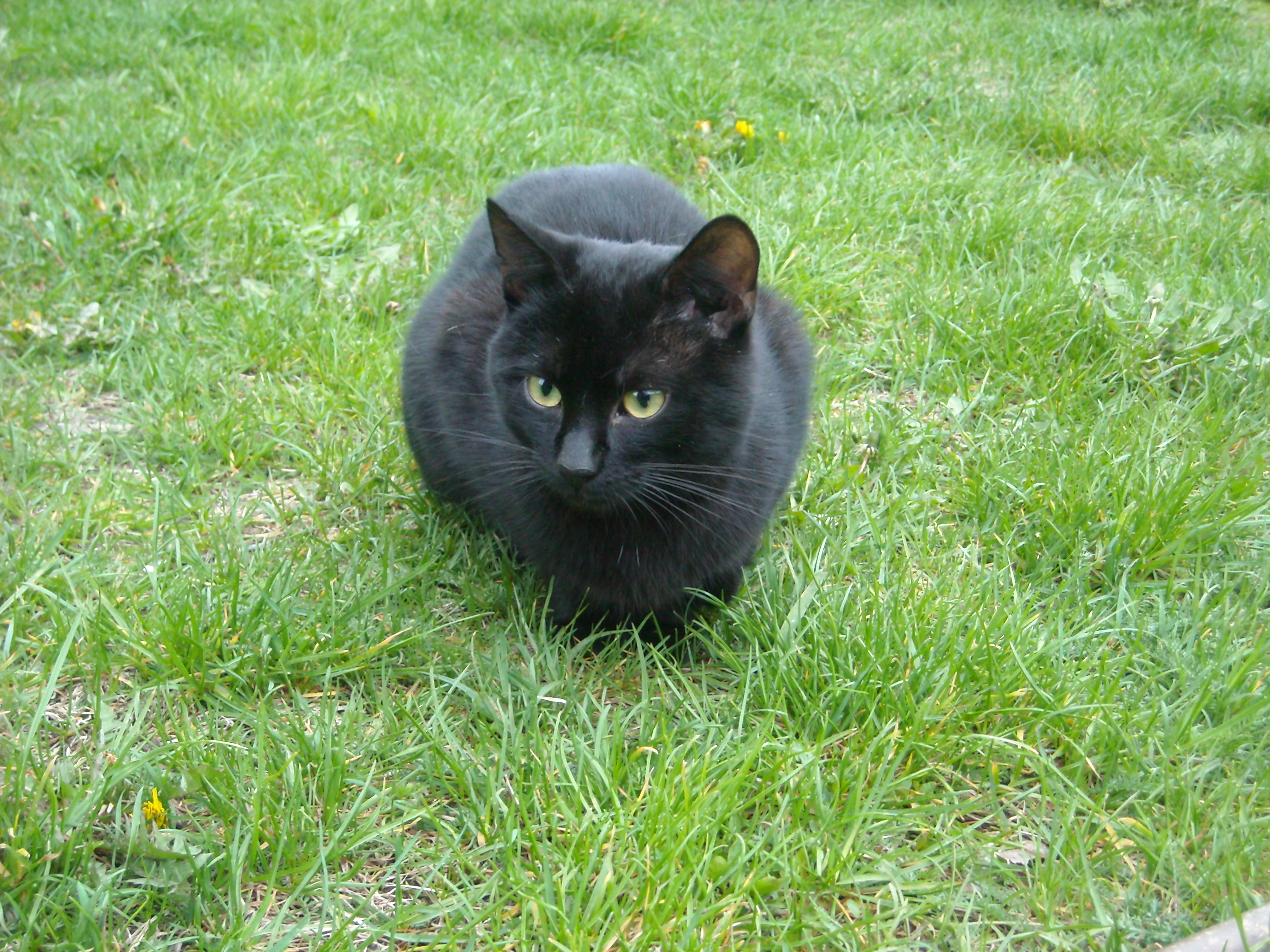 Black cat